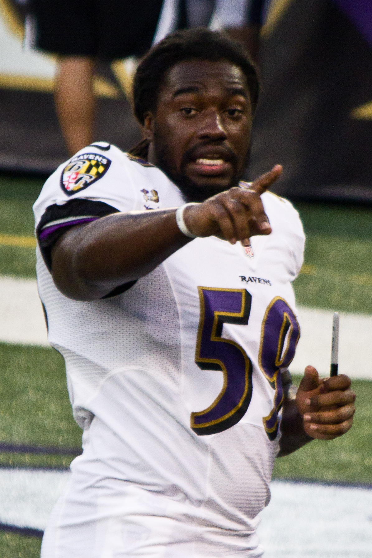 Dannell Ellerbe at Ravens M&T Bank Stadium practice in August 2012